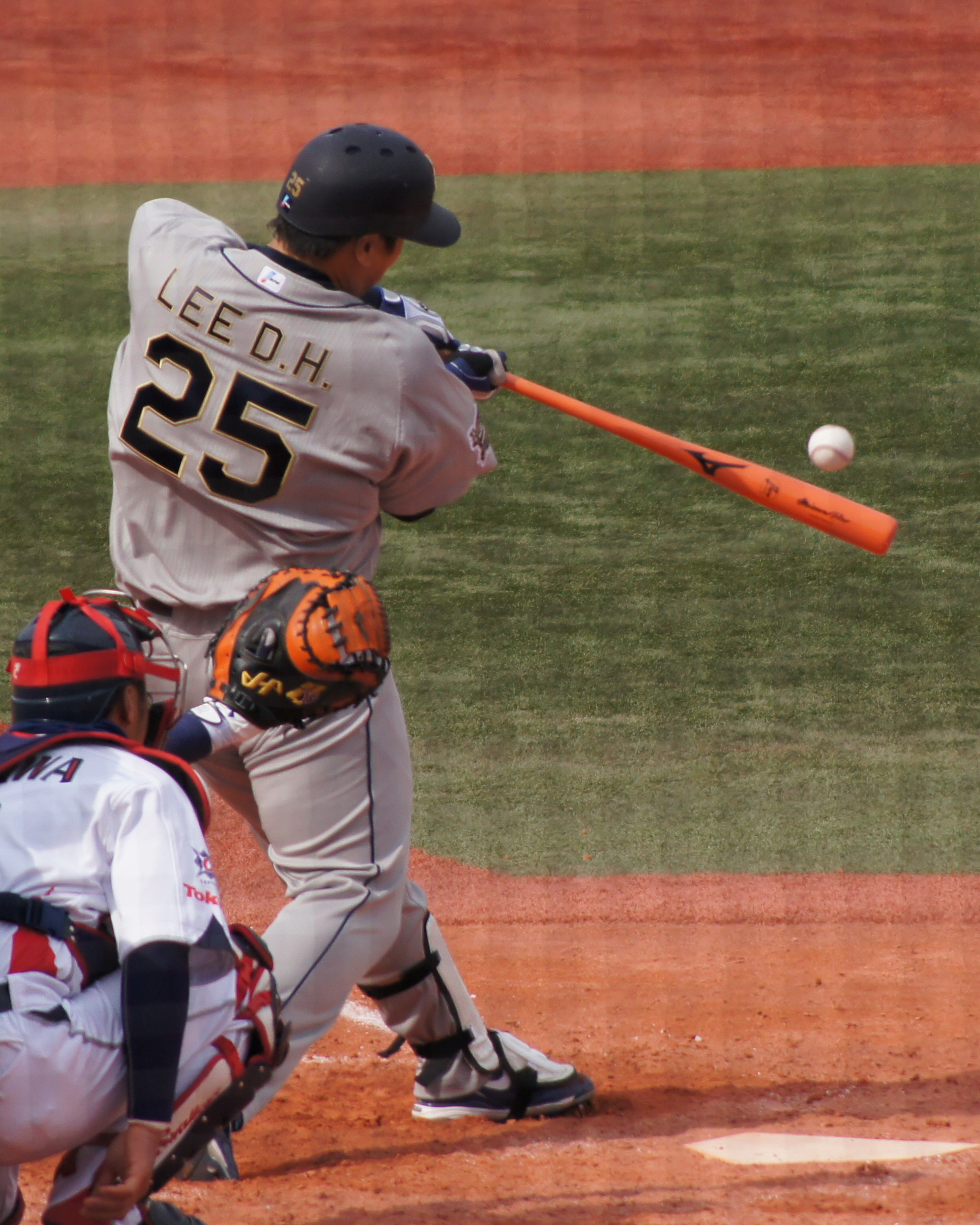 Dae-Ho Lee, infielder of the Orix Buffaloes, at Meiji Jingu Stadium.